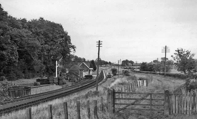 Burgh-by-Sands Station. View eastward, towards Carlisle; ex-North British, Carlisle - Silloth line. The line and station closed completely on 7/9/64.